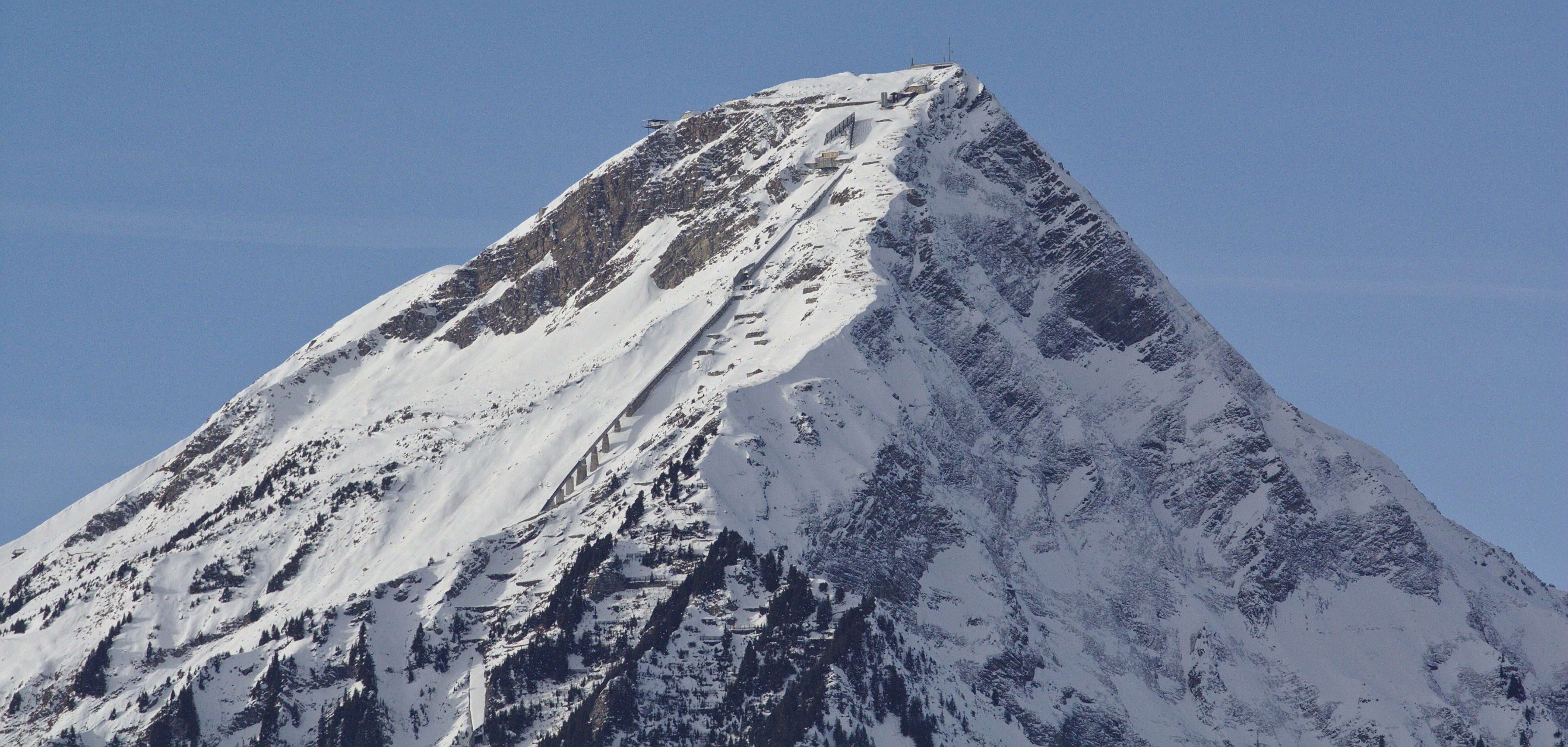 The Niesen in the Bernese Oberland region of the Swiss Alps. On this picture, taken from Hanselen above Rickenbach to West-North-West also the rails of the Niesenbahn are visible.